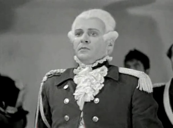 The russian actor Vsevolod Aksyonov in the movie "Suvorov" (1941)